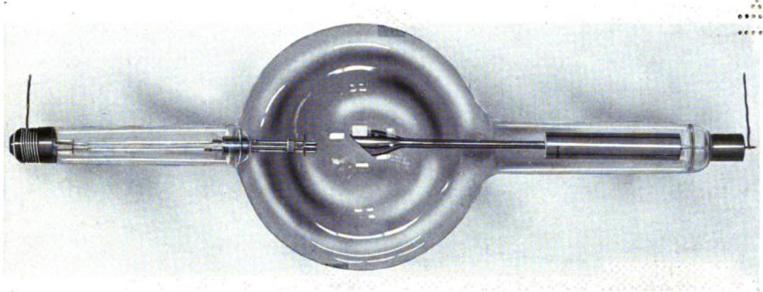 Photo of a Coolidge x-ray tube, from the early 1900s. The cathode is on the left, heated by a separate current passing through a filament, which releases electrons into the tube. The anode target is on the right. A high voltage of several thousand volts applied between the cathode and anode accelerates the electrons into a beam which strikes the anode, generating x-rays. The surface of the anode is angled so the x-rays are emitted in a downward direction, through the side of the tube. Alterations: rotated image 90° clockwise, cropped out frame